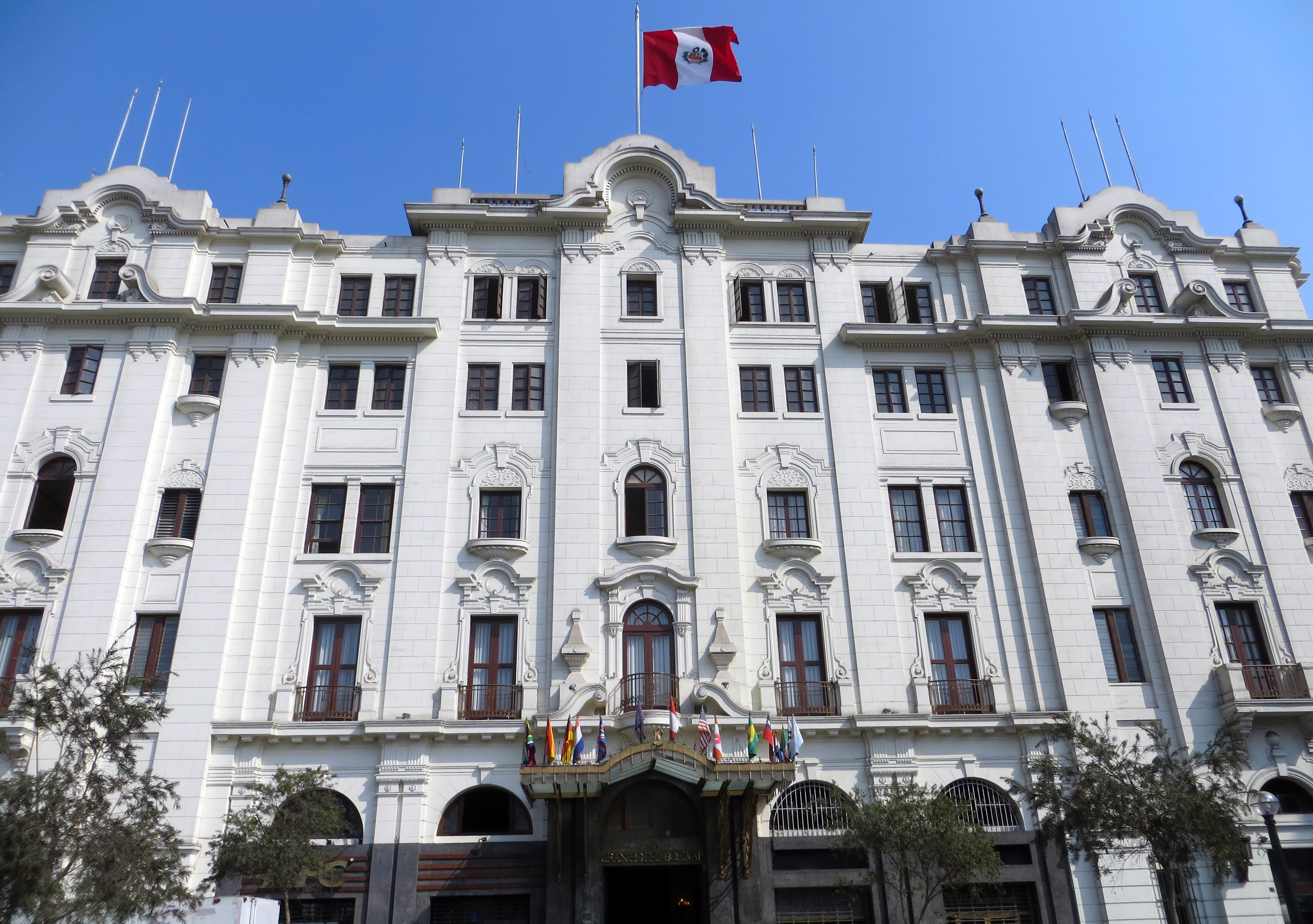 Plaza San Martin.